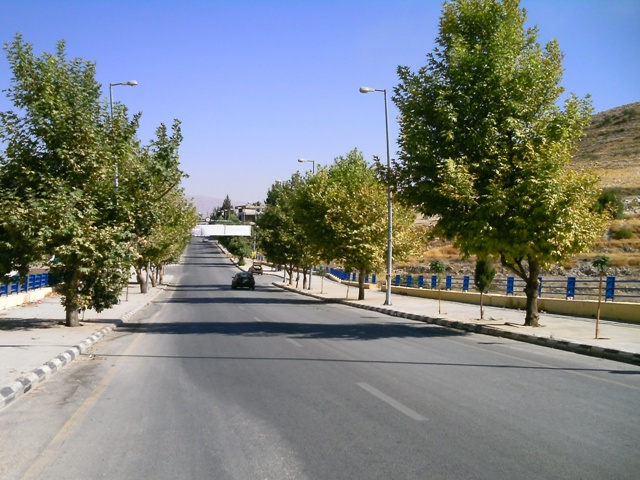 main road